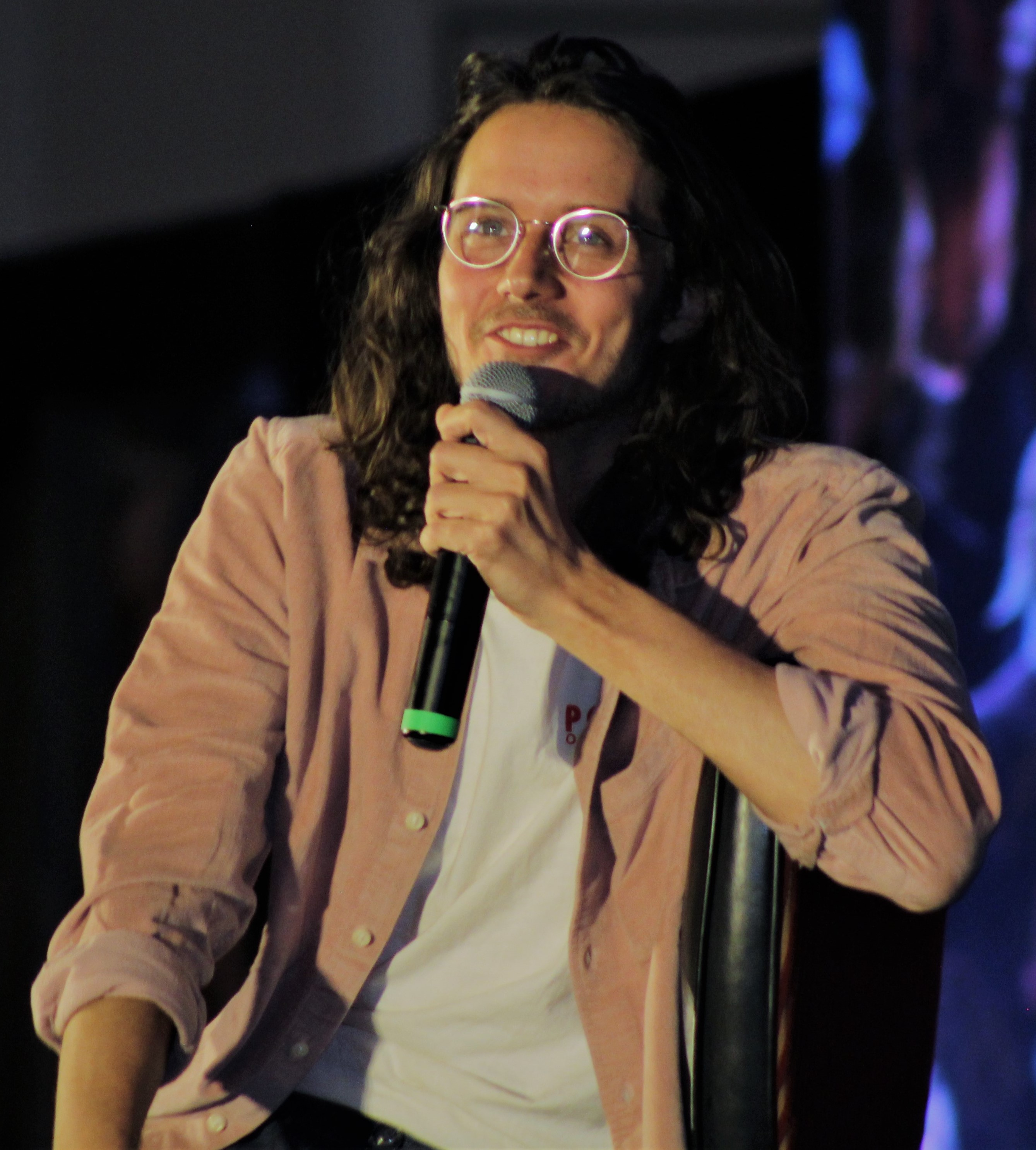 Cesar Domboy answering fan questions at the Creation Entertainment Outlander Convention in Las Vegas, Nevada in 2018.